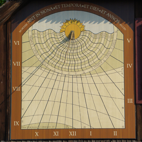 Close-up of the double-dial vertical sundial from Zakliczyn after the 2008 restoration